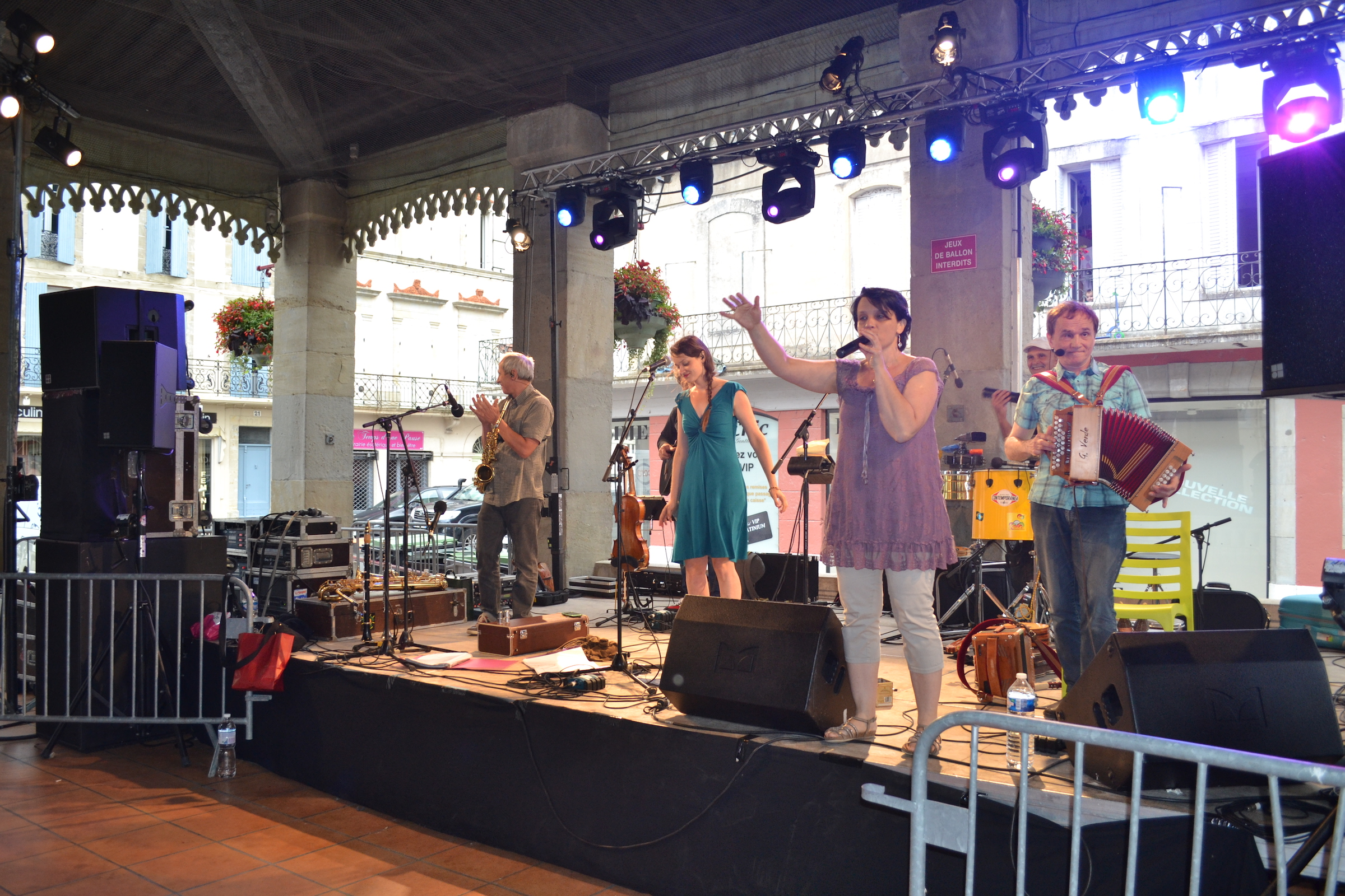 Ball by La Talvera during Euroregional Forum "Heritage and creation" in Castelnaudary in 2016.